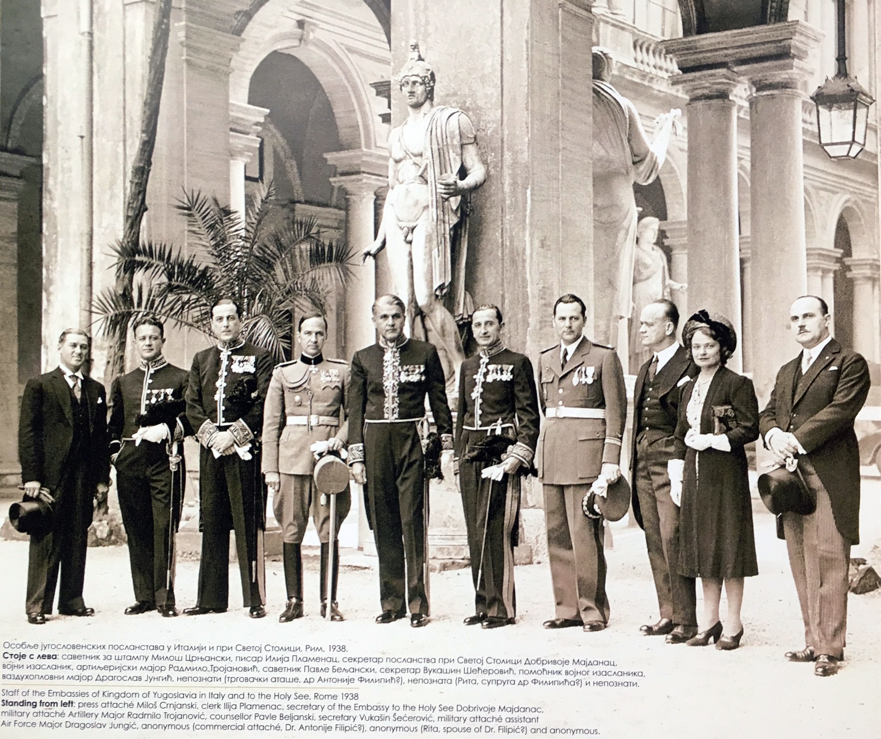 Miloš Crnjanski and member of Yugoslav embassy in Italy, Rome, 1939